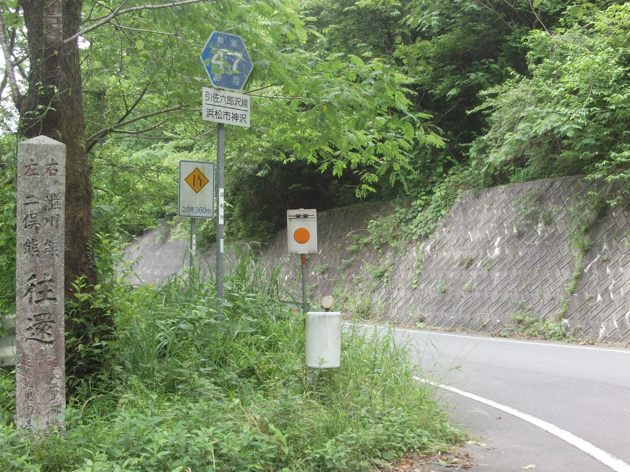 Shizuoka prefectural road No.47 in Kanzawa, Tenryu-ku, Hamamatsu, Shizuoka.